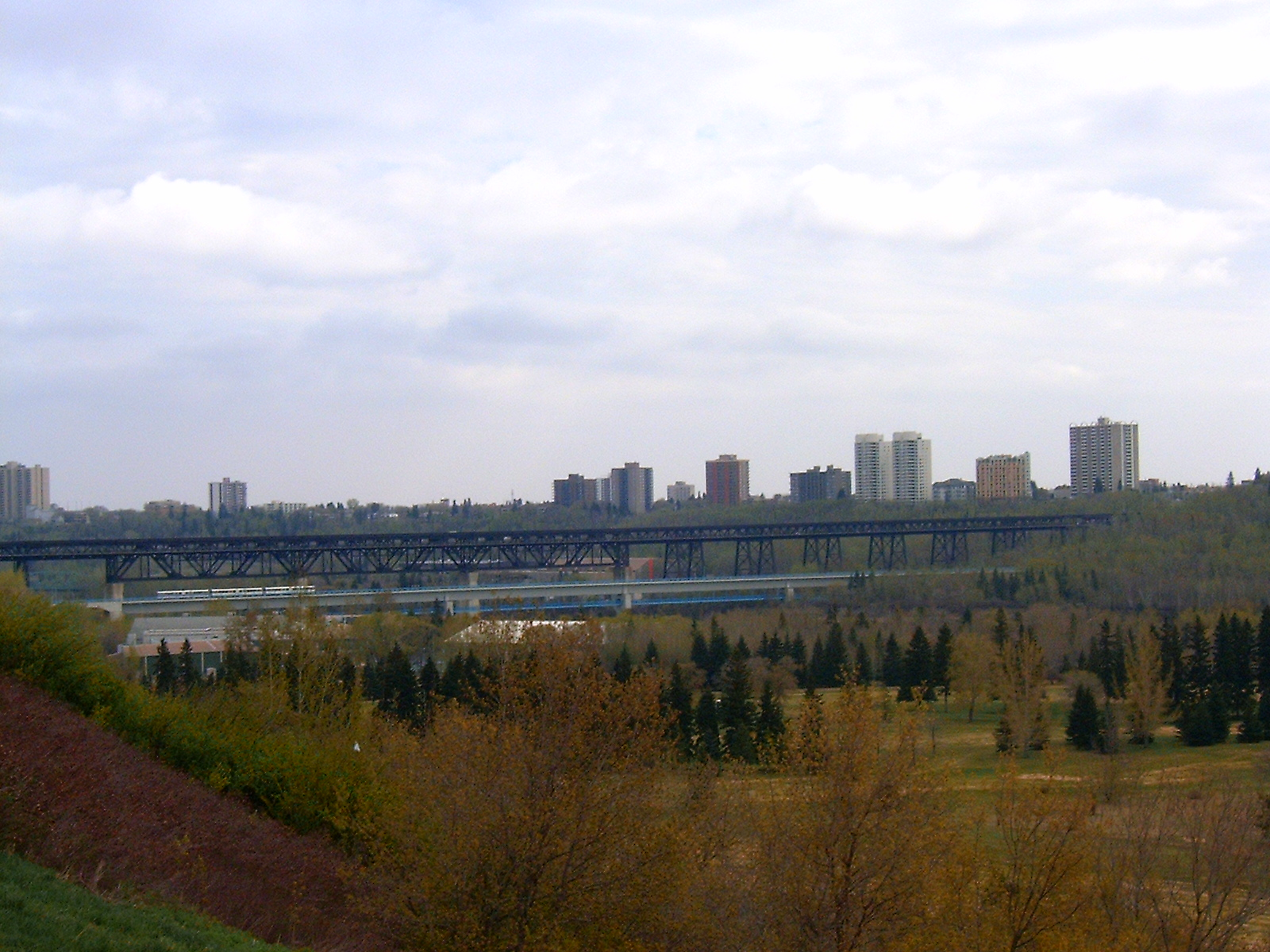 North Saskatchewan River Valley with the High Level and Dudley B. Menzies bridges, viewed from the northwest. In the mid-foreground can be seen parts of the Royal Glenora Club and Victoria Park. The apartment buildings along the horizon are on Saskatchewan Drive, lining the right bank of the valley above Walterdale.